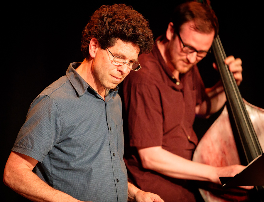 Rob Waring at the stage of Sølvsalen. The concert was part of Kongsberg Jazzfestival and took place on 08. July 2017. Lineup: Eyolf Dale (piano) Hayden Powell (trumpet) Kristoffer Kompen (trombone) Adrian L. Waade (violin) André Roligheten (saxophone) Gard Nilssen (drums) Per Zanussi (bass guitar) Rob Waring (vibraphone)